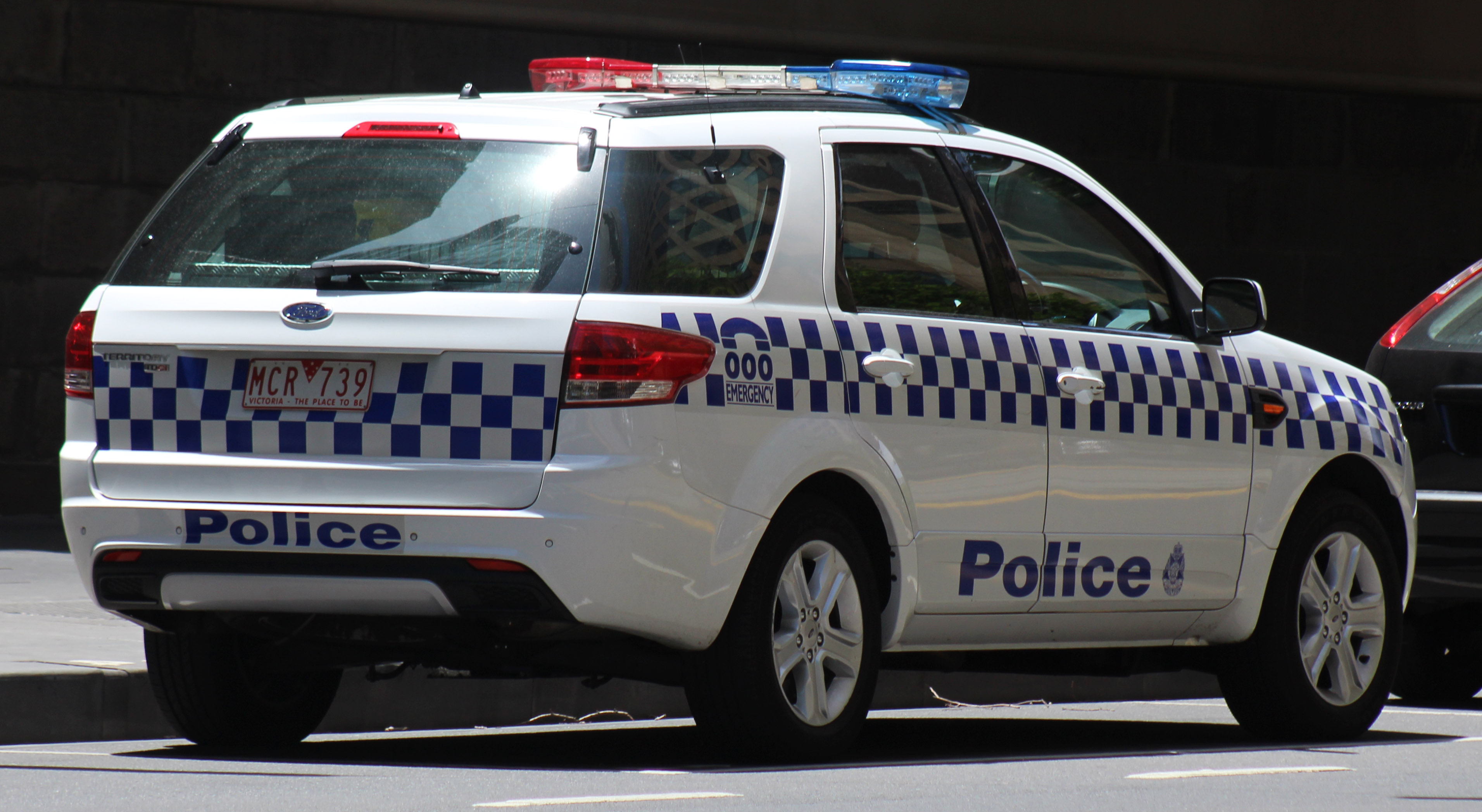 2012 Ford Territory (SZ) TX RWD wagon, Victoria Police. Photographed in Melbourne, Victoria Australia Vehicle registration enquiry resultsJurisdictionVictoriaRegistrationMCR739Chassis code6FPAAAJGATCS97771Engine code0669437276DTCompliance date2012-10Year of manufacture2012